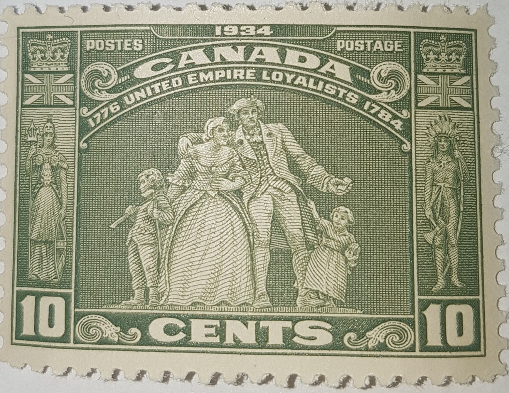 Canada 1934 United Empire Loyalist 10 Cent Stamp